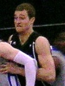 Justin Graham drives to the basket in SJSU basketball game against Hawaii